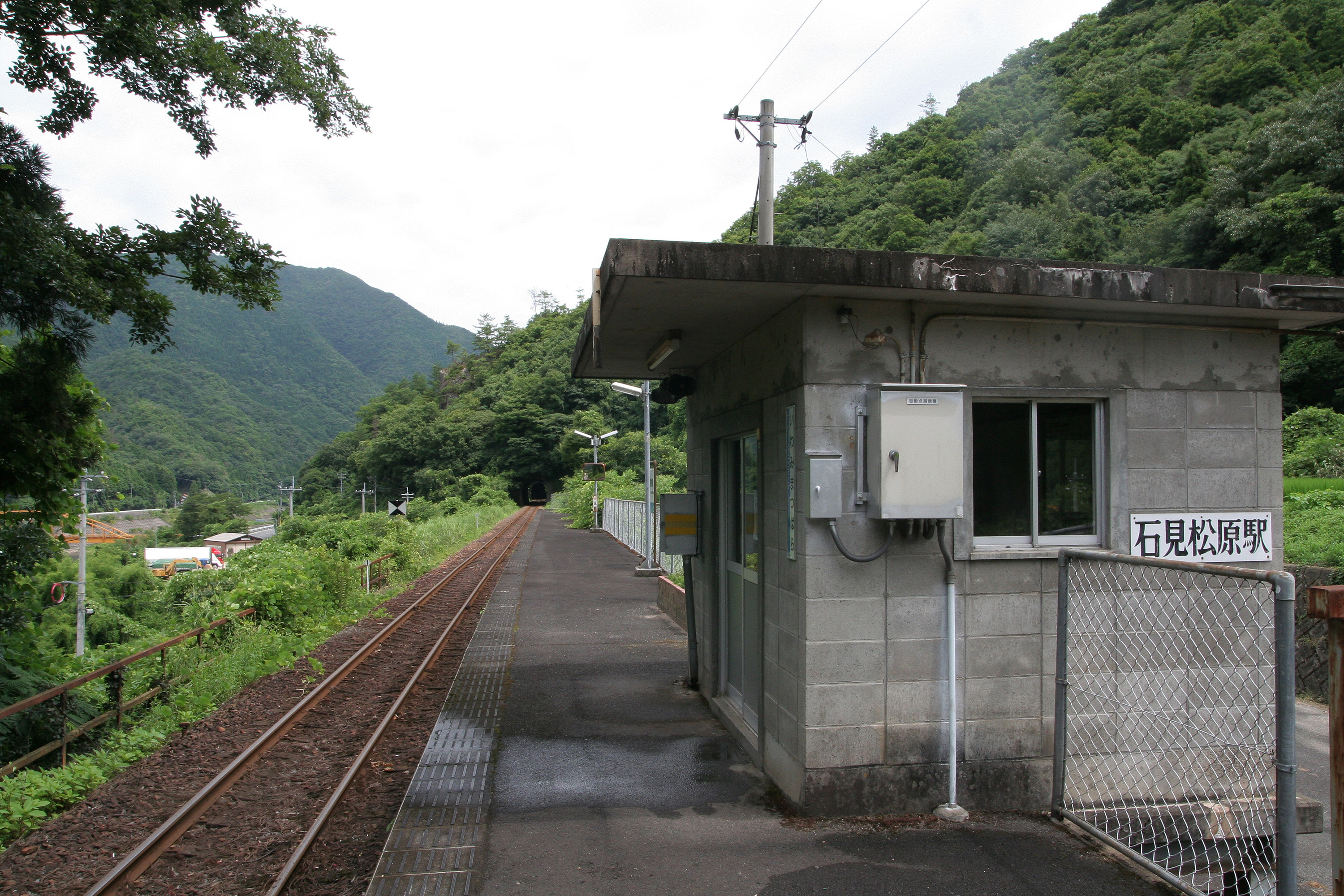 West Japan Railway Sankō Line Iwami-matsubara Station enclosure